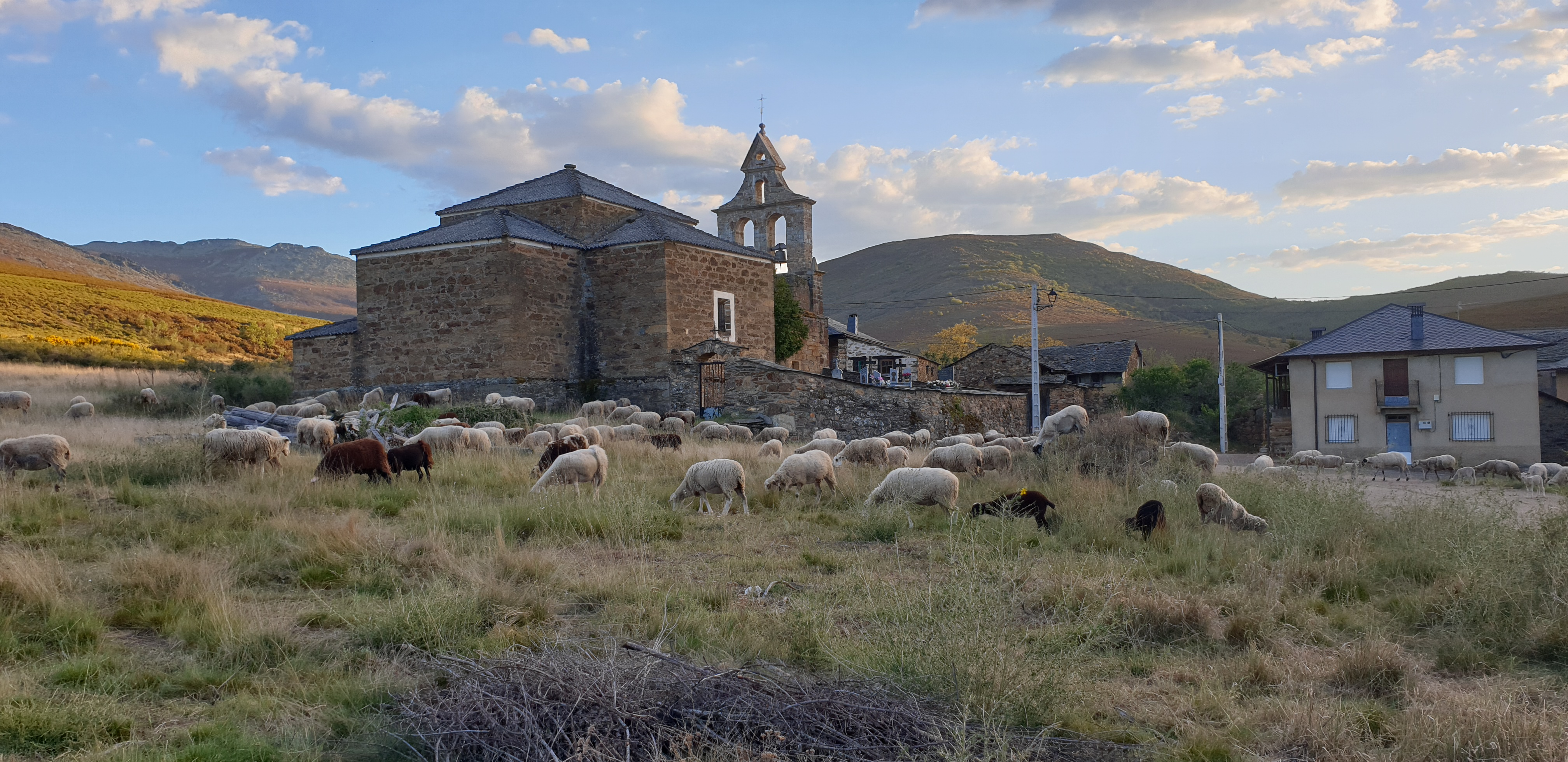 Ovejas desbrozando en Valdavido